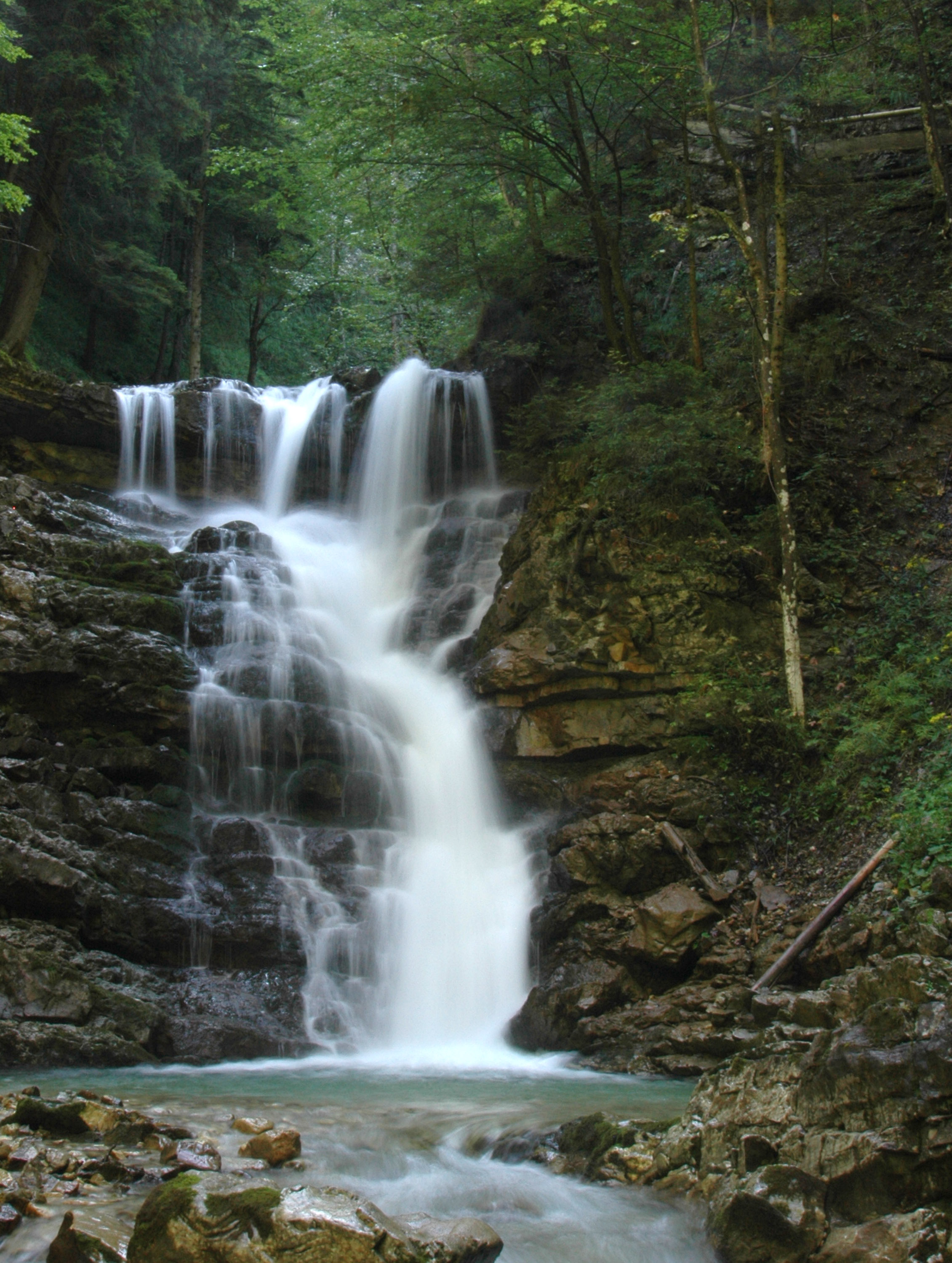 Jenbach waterfall in Bad Feilnbach/Germany